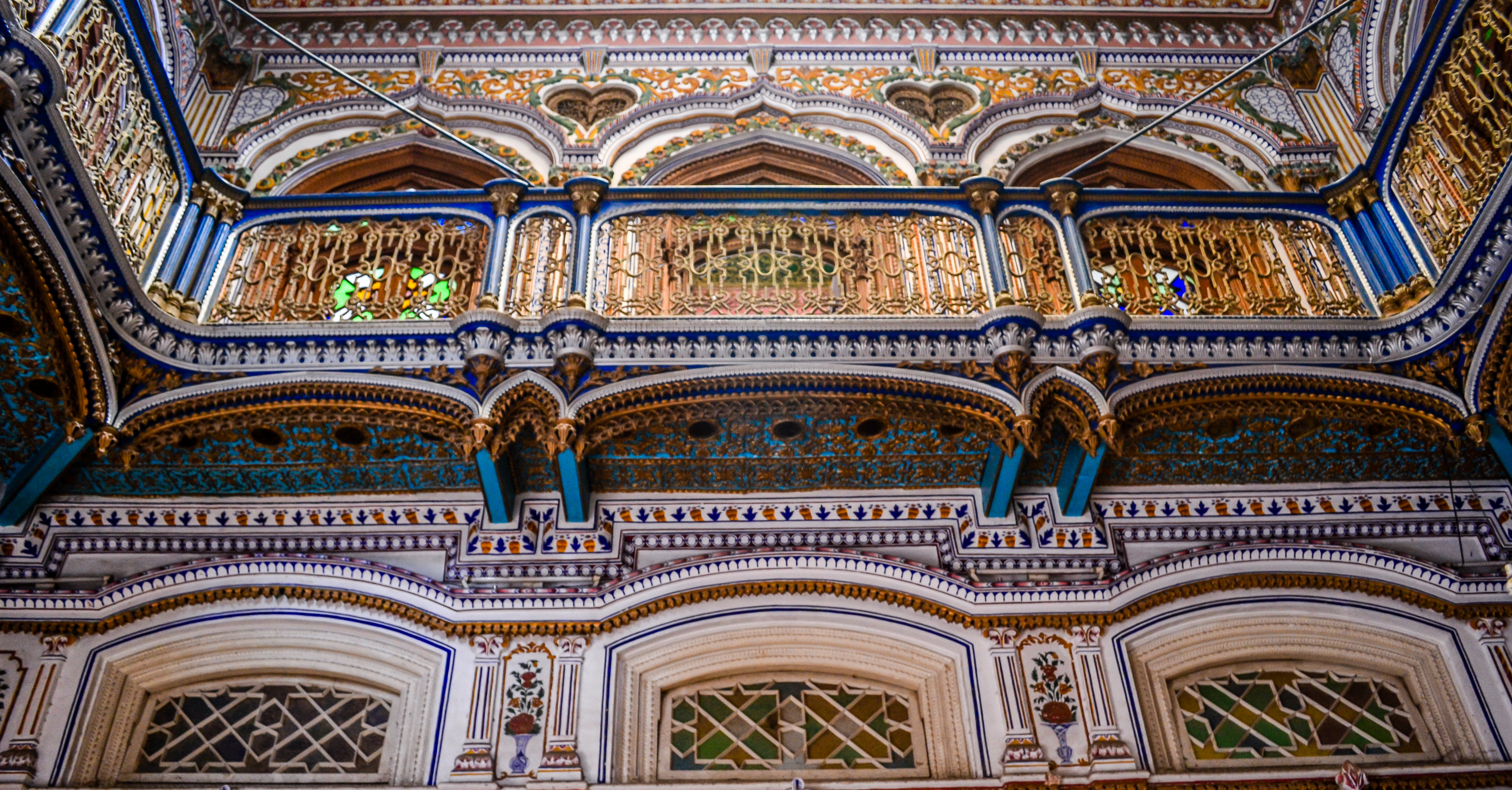 Omar Hayat Mahal (Gulzar Manzil) This is a photo of a monument in Pakistan identified as the PB-P-2